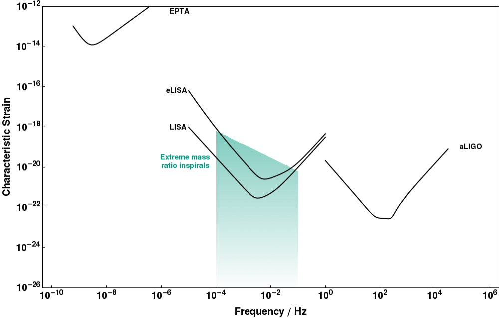 Characteristic strain for extreme mass ratio inspiral gravitational-wave signals and sensitivity curves for a range of gravitational-wave detectors as a function of frequency.